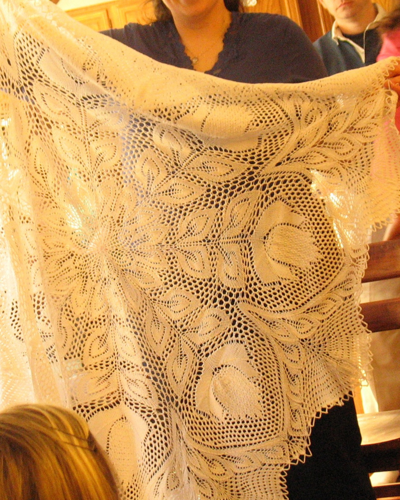 Completed lace knit tablecloth based on the pattern "Lyra" by Herbert Niebling. Knit by Teresa Galloway.